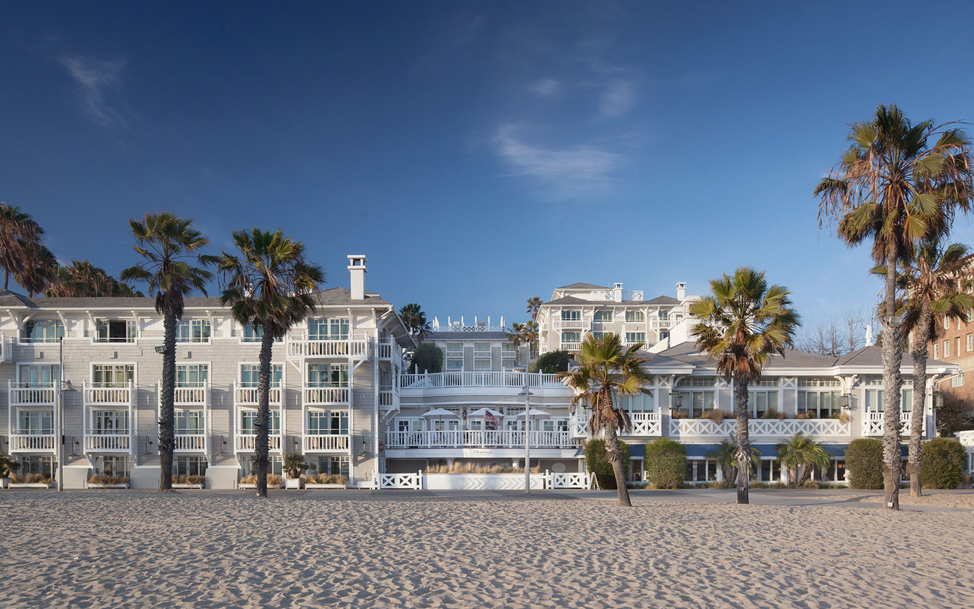 A 2015 photograph of Shutters on the Beach Hotel in Santa Monica, California.